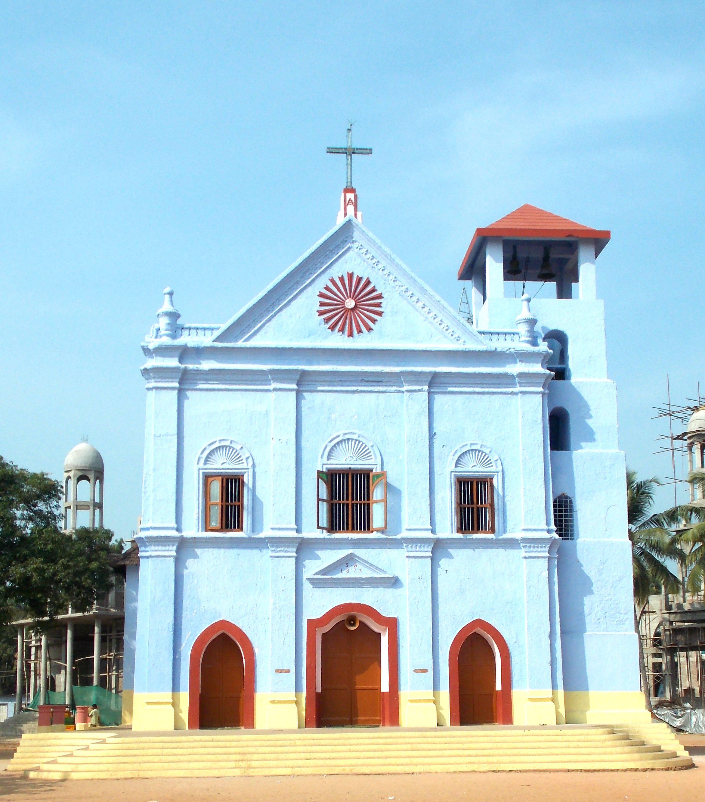 St. Augustines Church Aroor